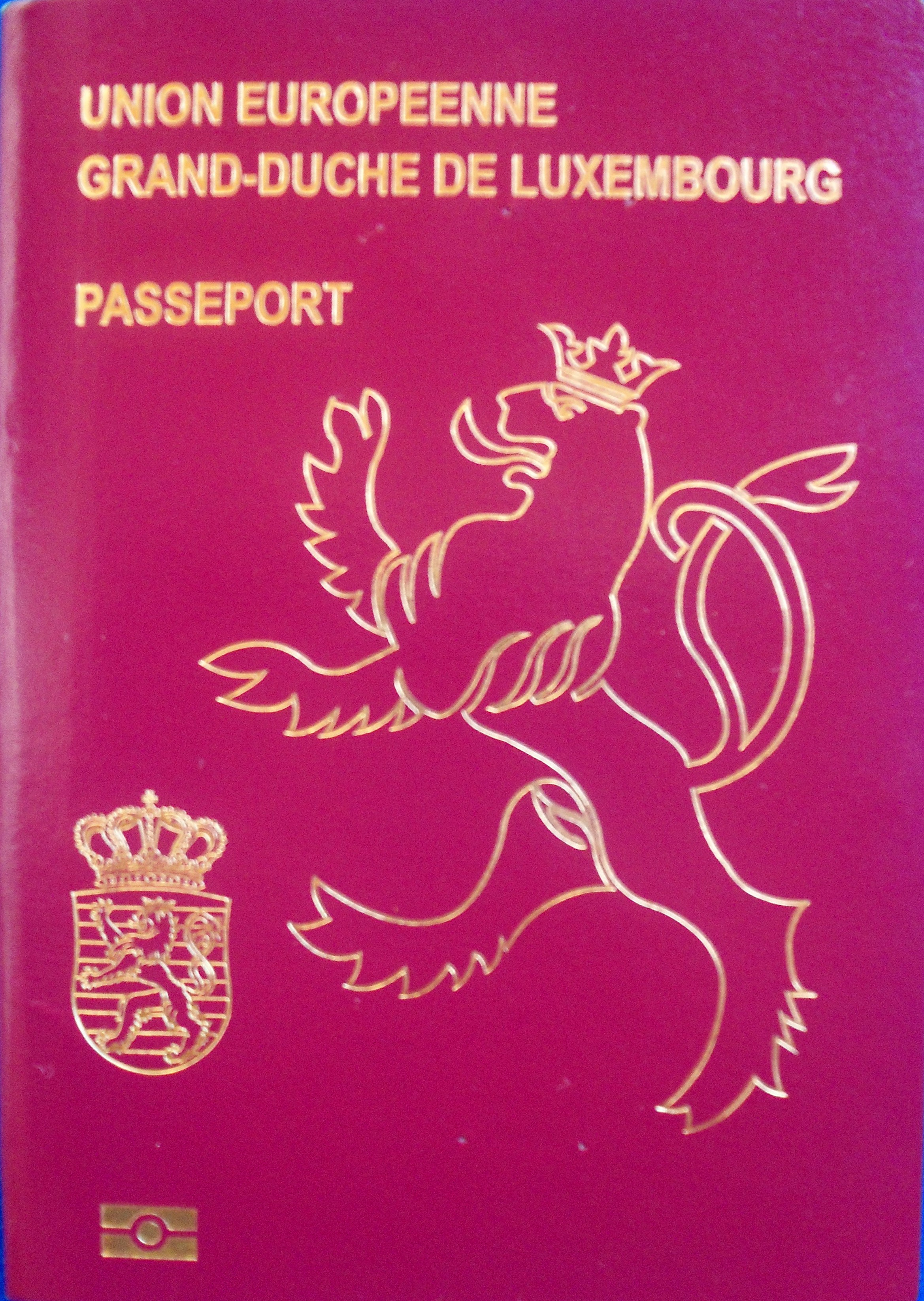 Luxembourg biometric passport.